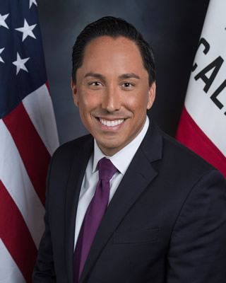 Official portrait of Todd Gloria, CA Assembly Member District 78